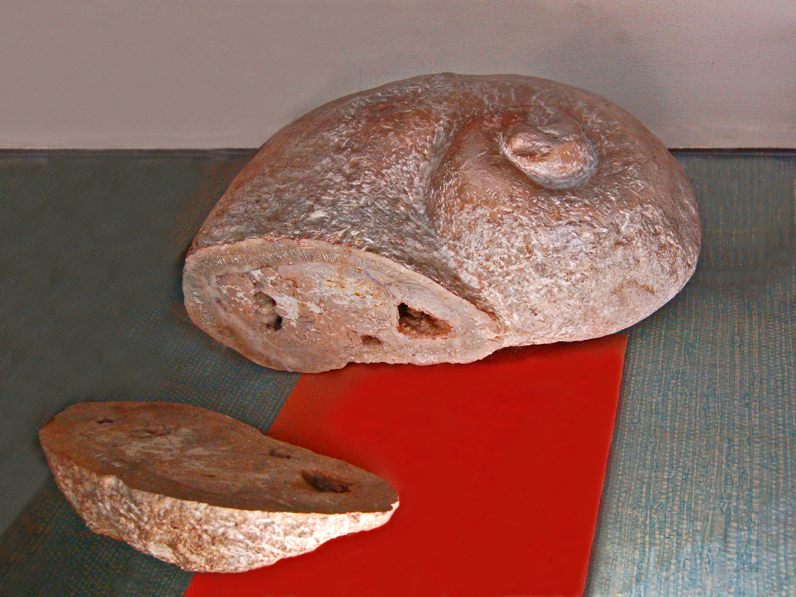 Fossil shell of Caprina adversa from France, on display at Gallery of Paleontology and Comparative Anatomy, Paris.